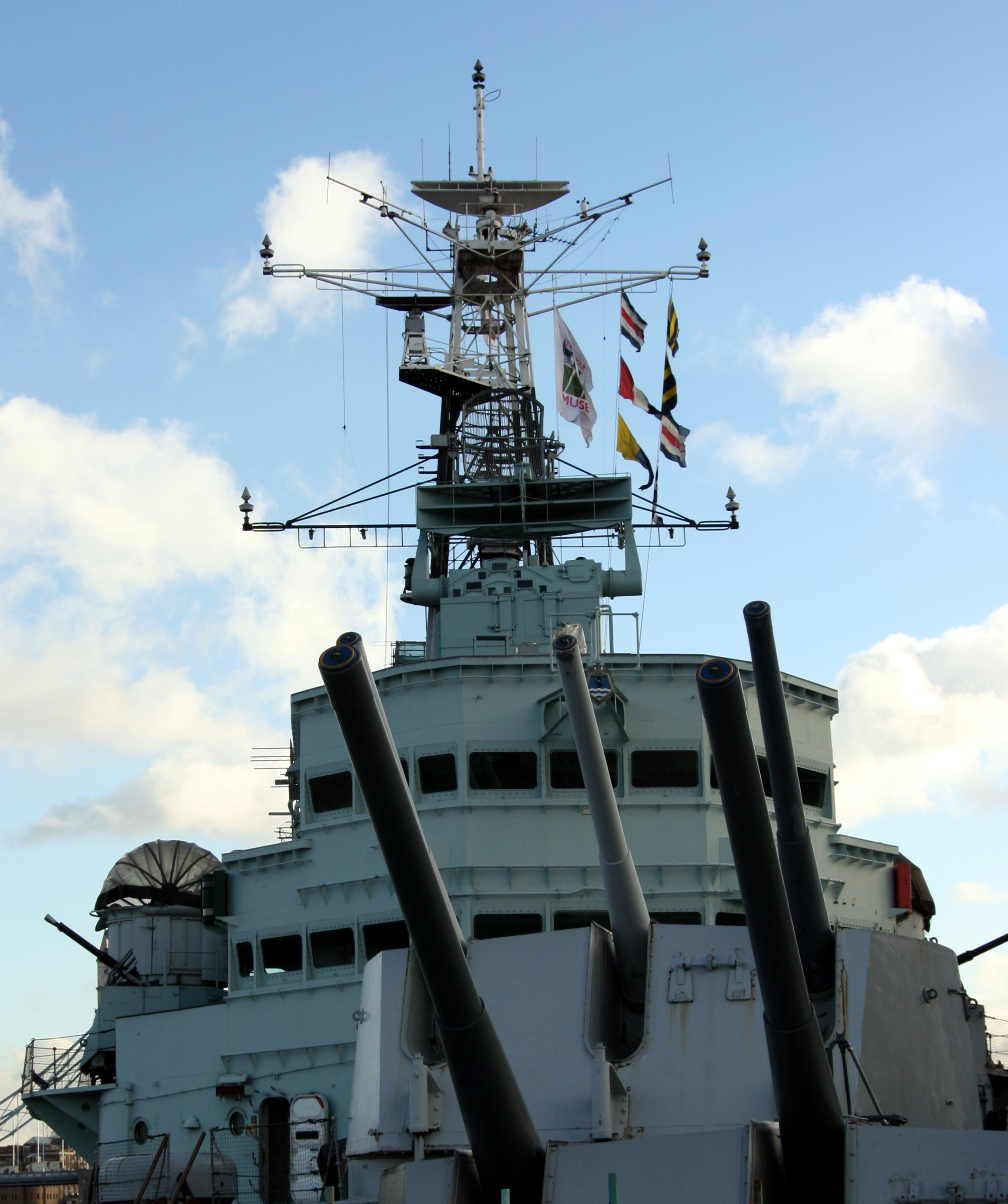 The forward superstructure of HMS Belfast, with the 6inch guns at the forefront and the signal / radar mast at the back.